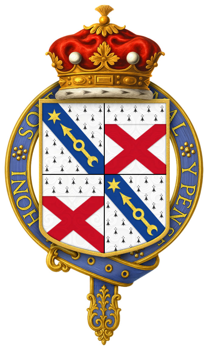 Garter encircled shield arms of Henry Petty-Fitzmaurice, 5th Marquess of Lansdowne, KG, as displayed on his Order of the Garter stall plate in St. George's Chapel.